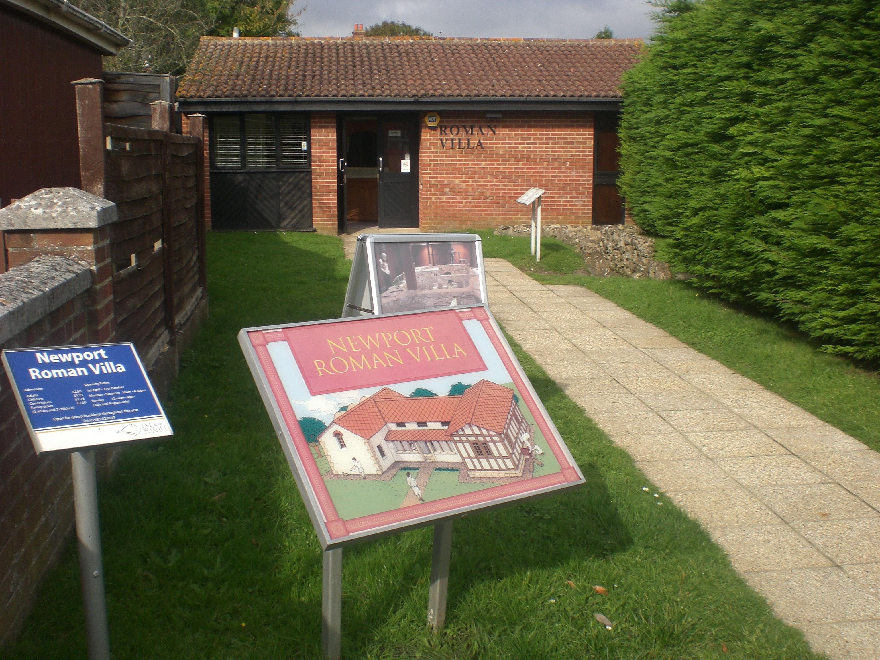 The outsite of Newport Roman Villa